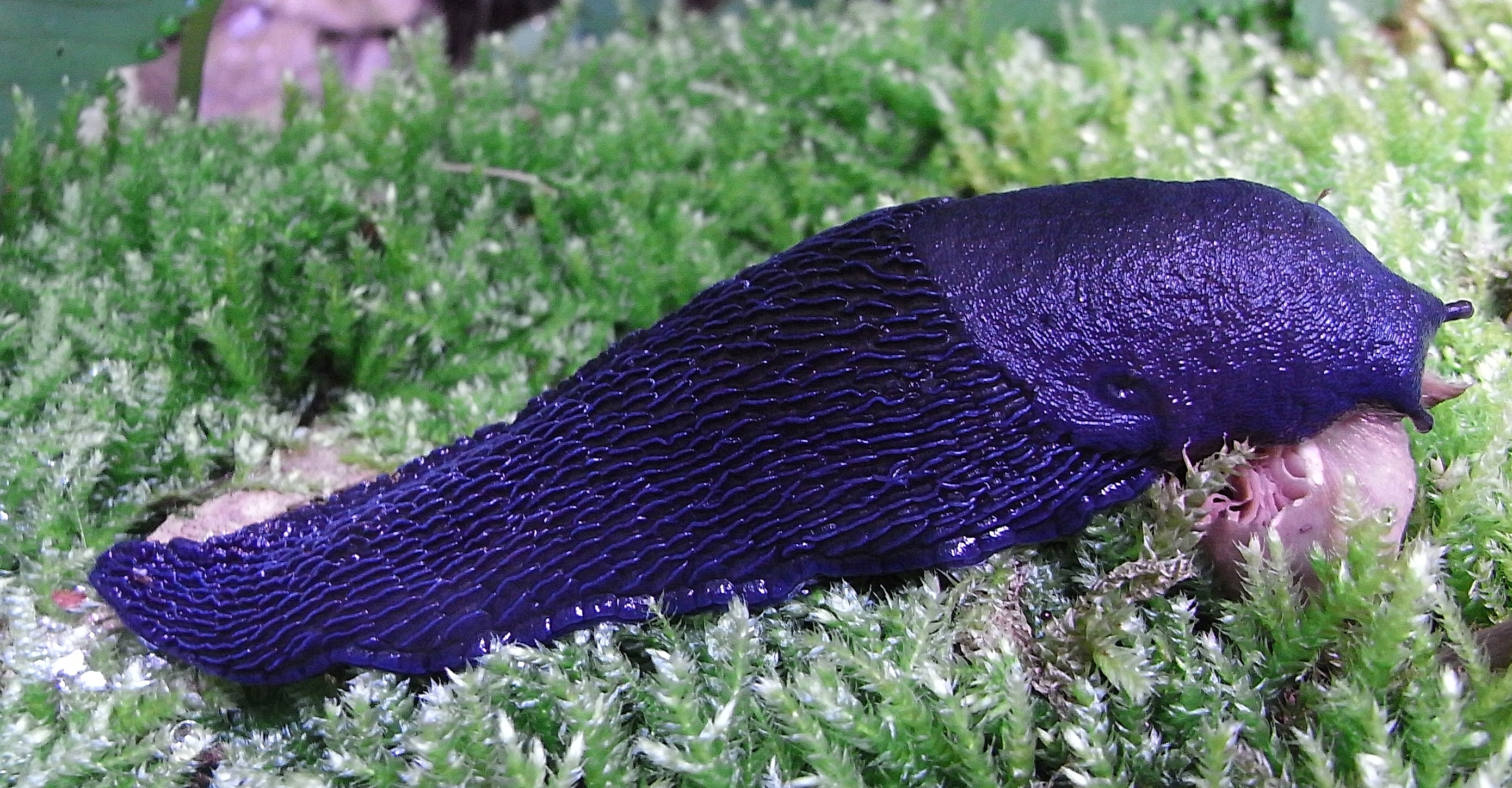 Bielzia coerulans from Hungary, from Zemplen-mountains in June 2010Ricoh R8